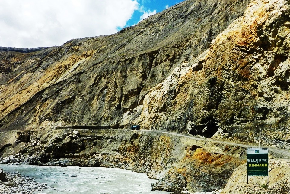 I took this photo on a trip to India in 2010